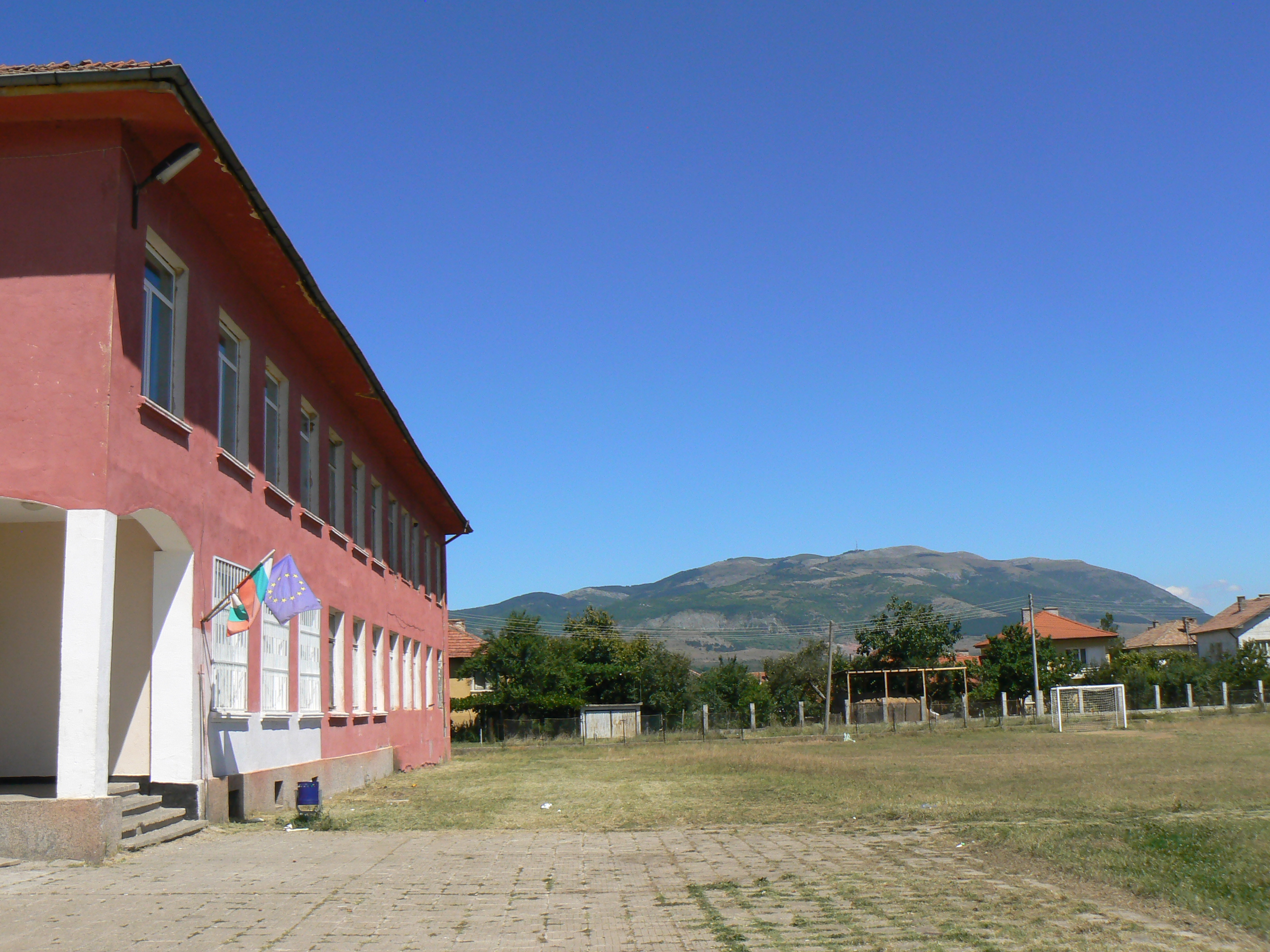 Village Yabalkovo, Kyustendil District, Bulgaria